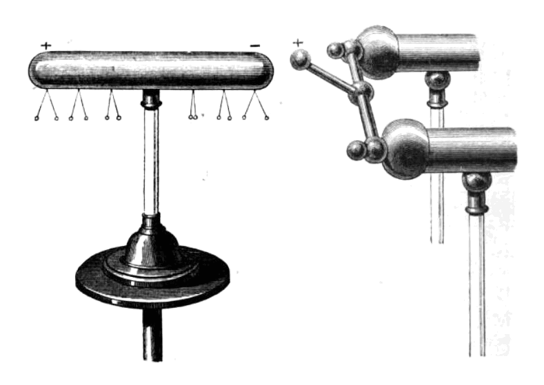 Woodcut of experiment demonstrating electrostatic induction, from an 1872 physics text. The positive output terminal of an electrostatic machine at right is placed near one end of a sausage shaped brass cylinder on an insulating stand, at left. The positive charge from the machine induces charges in the ends of the cylinder The pairs of pith balls hanging on linen threads from the bottom of the cylinder are crude electroscopes; they give a rough measurement of how strong the charge is at each point by how wide apart they spread. They show that the charge is concentrated at both ends of the cylinder. Alterations to image: removed figure number, increased brightness slightly, converted to 32 color PNG.